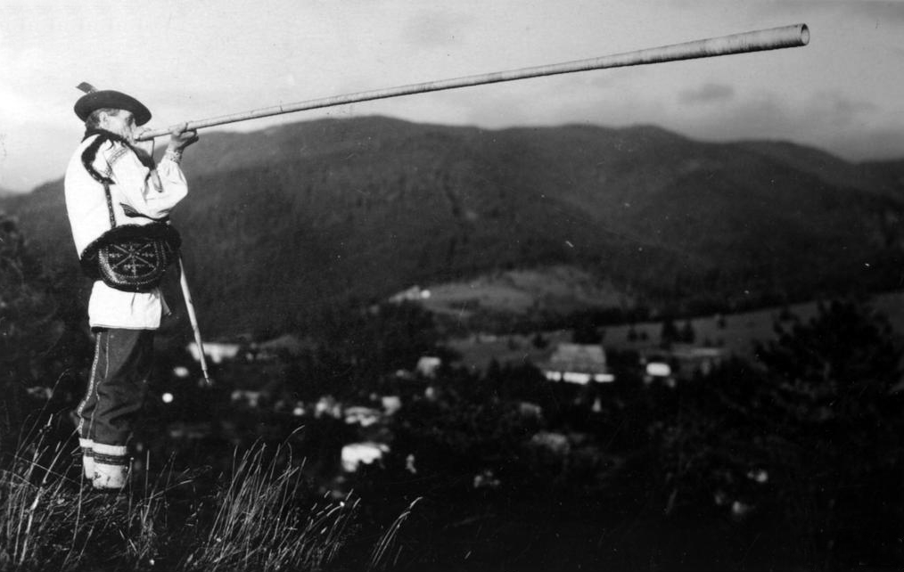 Hutsul plays trembita trumpet (Ukrainian highlanders) from Verkhovyna district, southern part of Ivano-Frankivsk oblast (province), western Ukraine. old prewar photo.